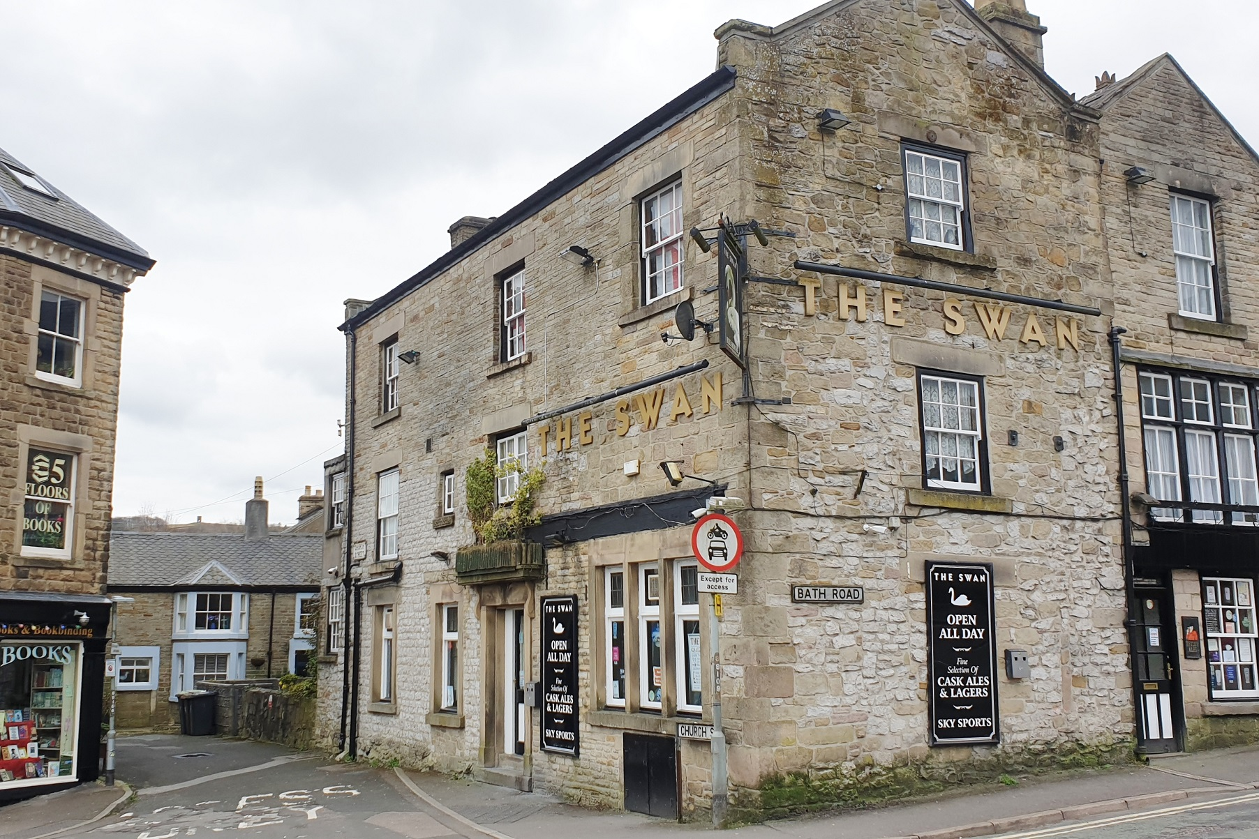 The Swan at Buxton